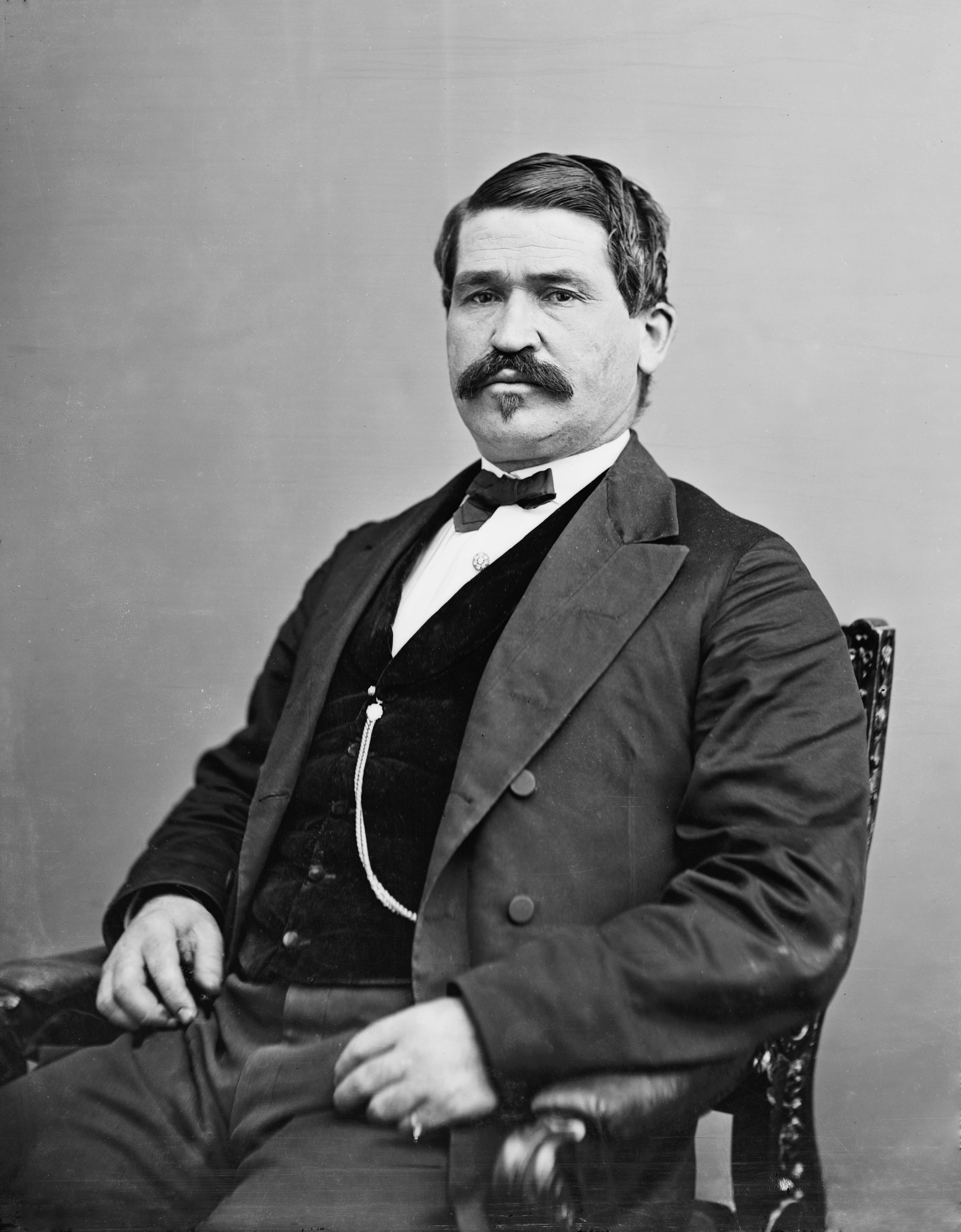 James Gillpatrick Blunt ( July 21, 1826 – July 27, 1881) was a sailor, physician and Union general during the American Civil War. Library of Congress description: "Blunt, Gen. J.G. (not in uniform)"